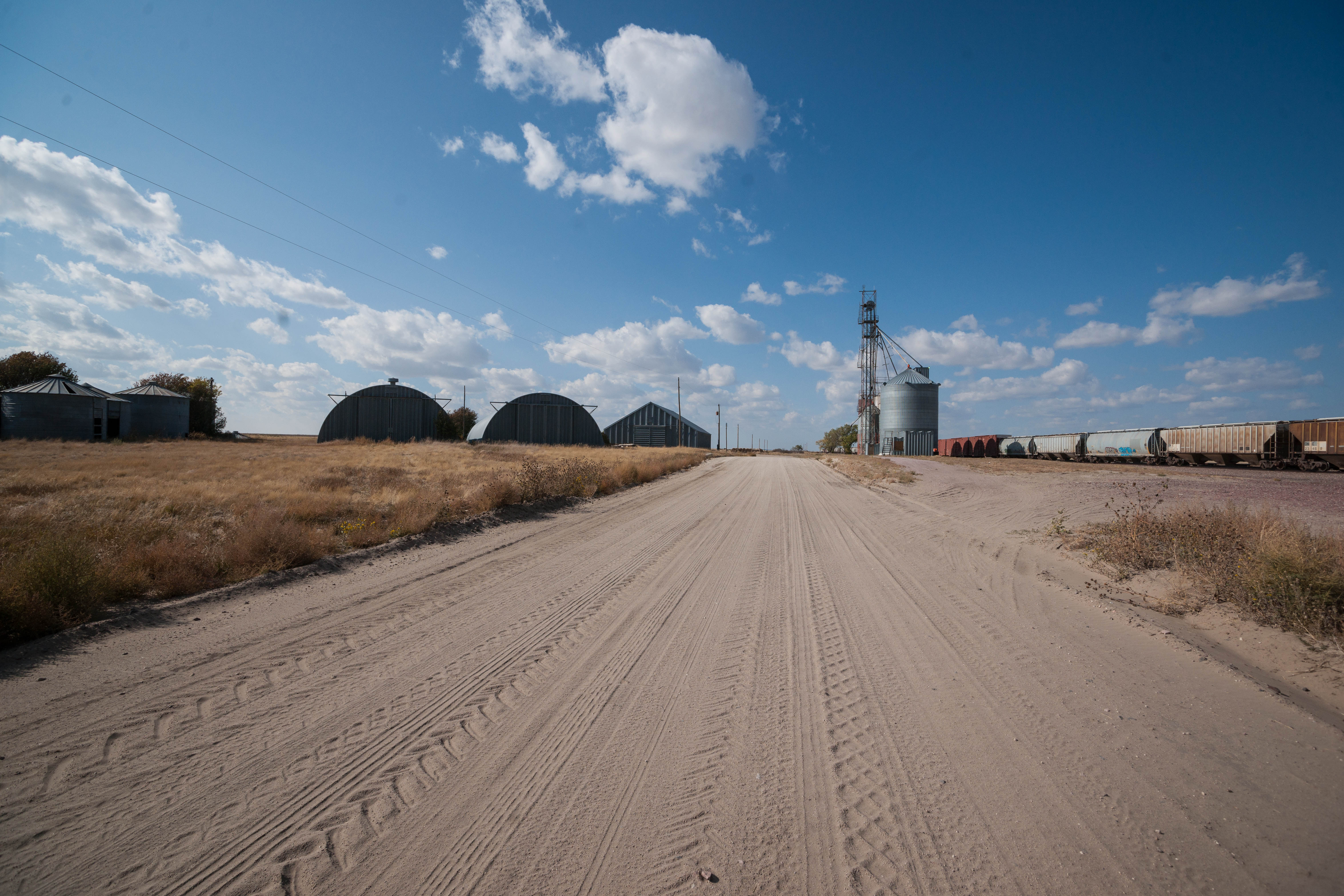 From